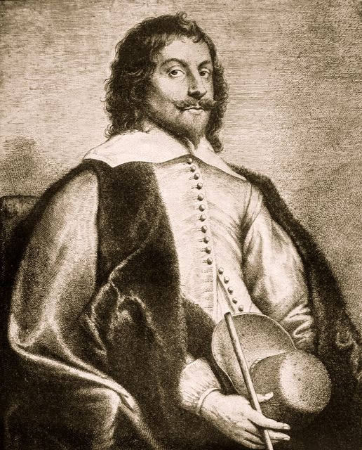 English Baroque composer Nicholas Lanier (1588-1666)